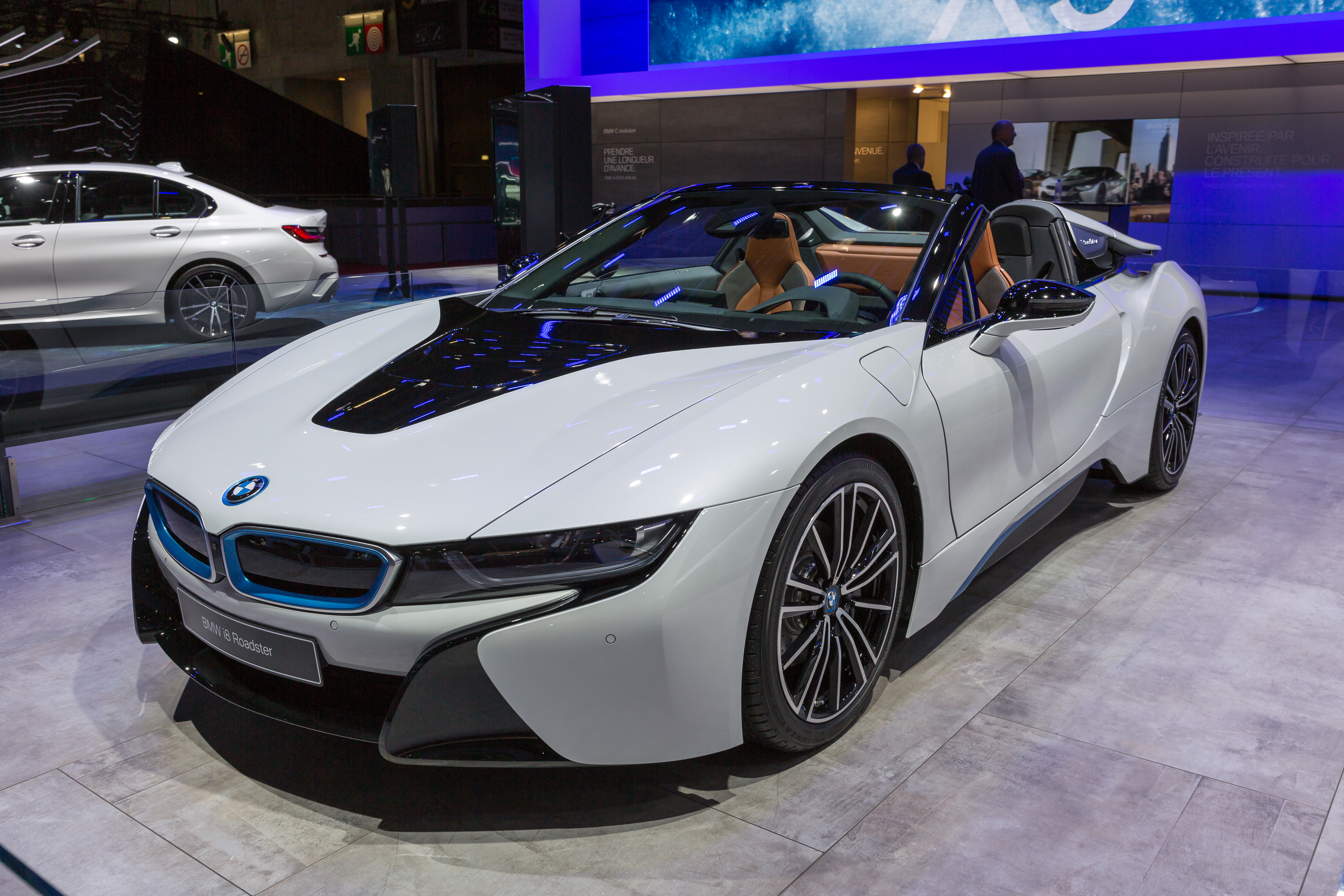 BMW i8 Roadster, Mondiale Paris Motor Show 2018